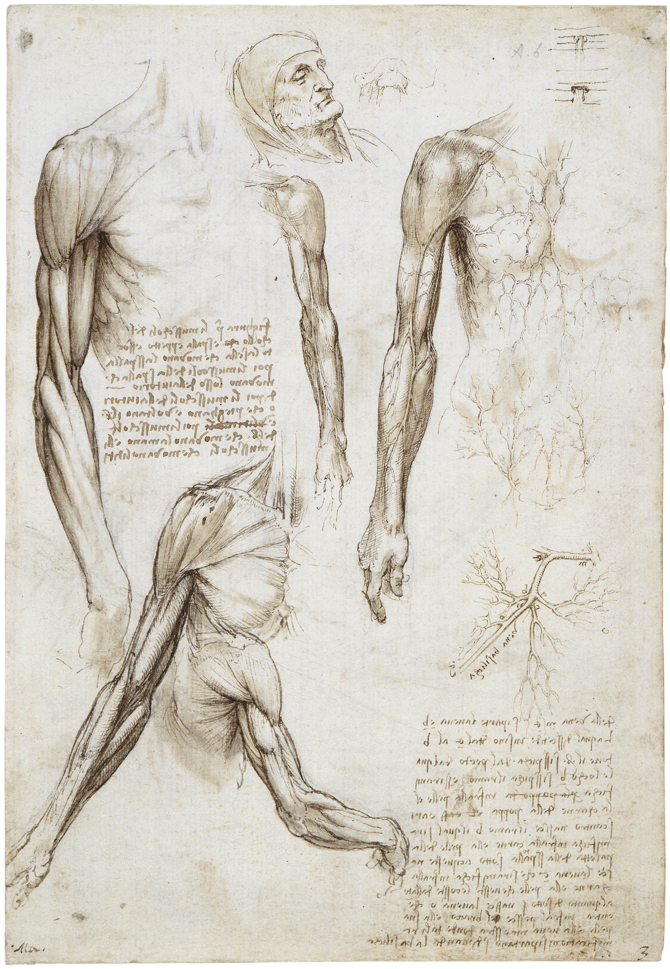 A Dead or Moribund Man in Bust Length. The muscles of the arm, and the veins of the arm and trunk.